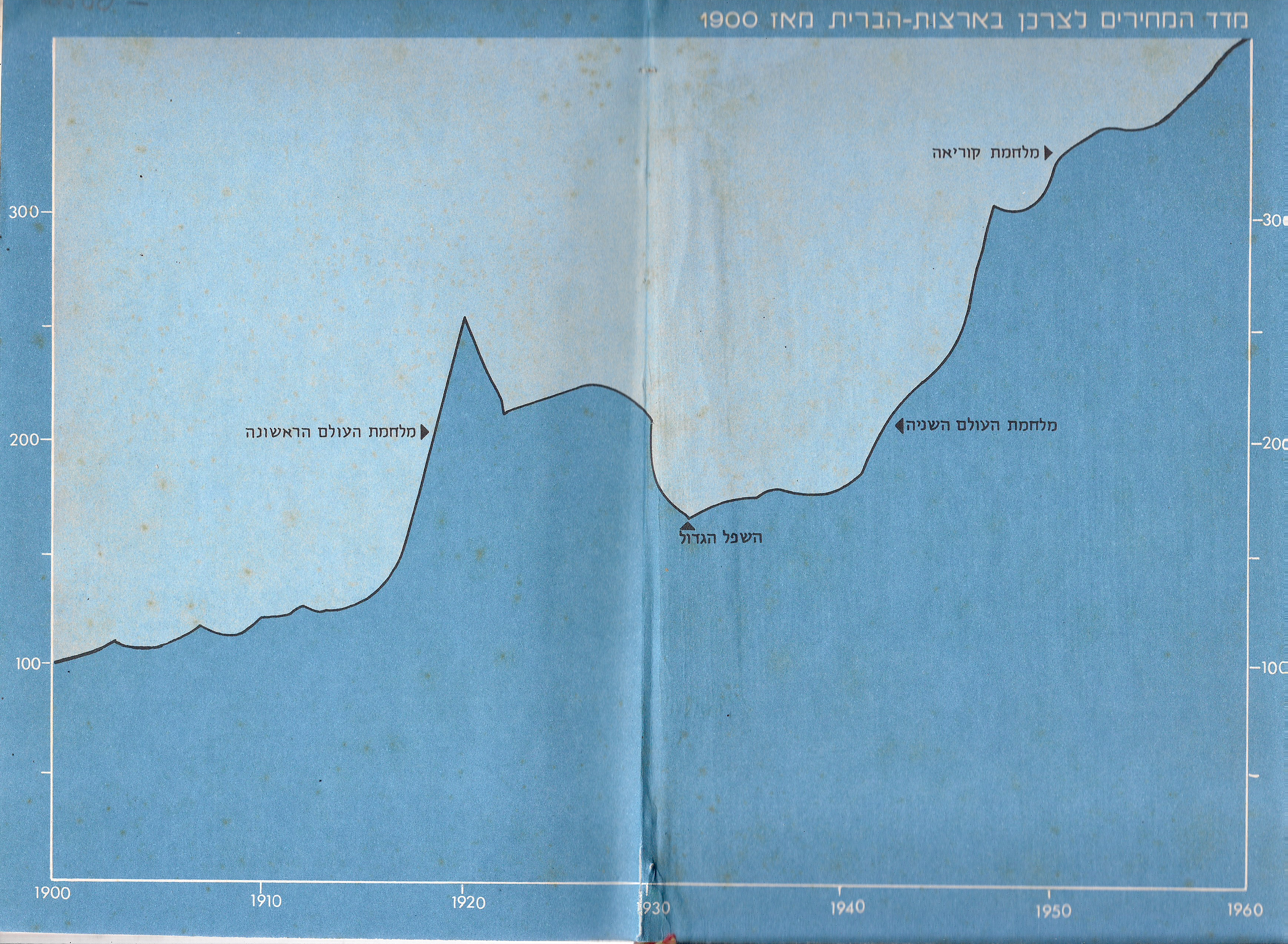 First page of Prof. Paul Samuelson book: "Economics (textbook)" in Hebrew